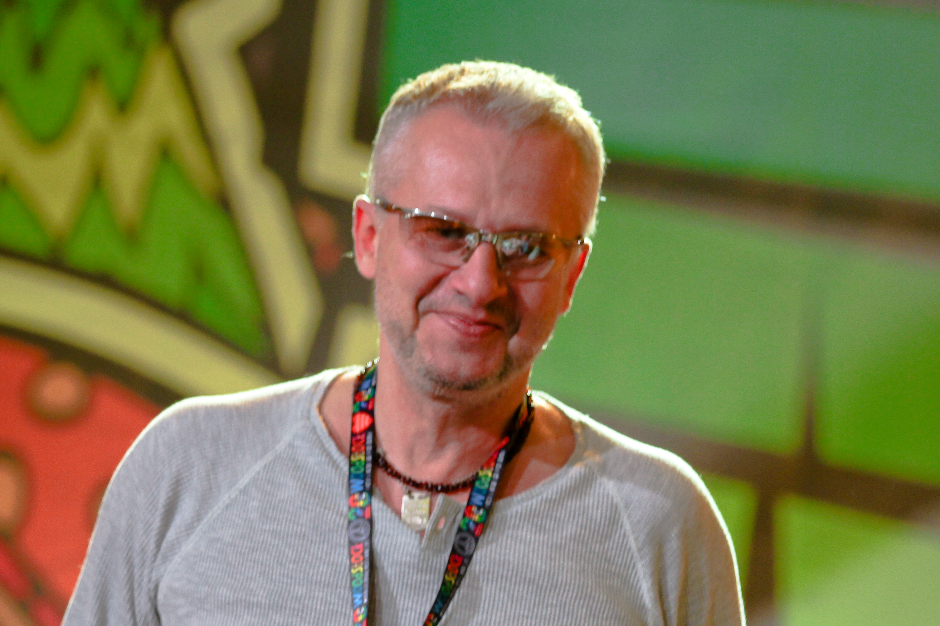 Przystanek Woodstock 2014.